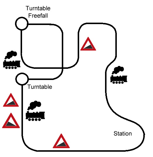 Schematic map of the dark ride Steel Monsters in Dutch Railway Museum.